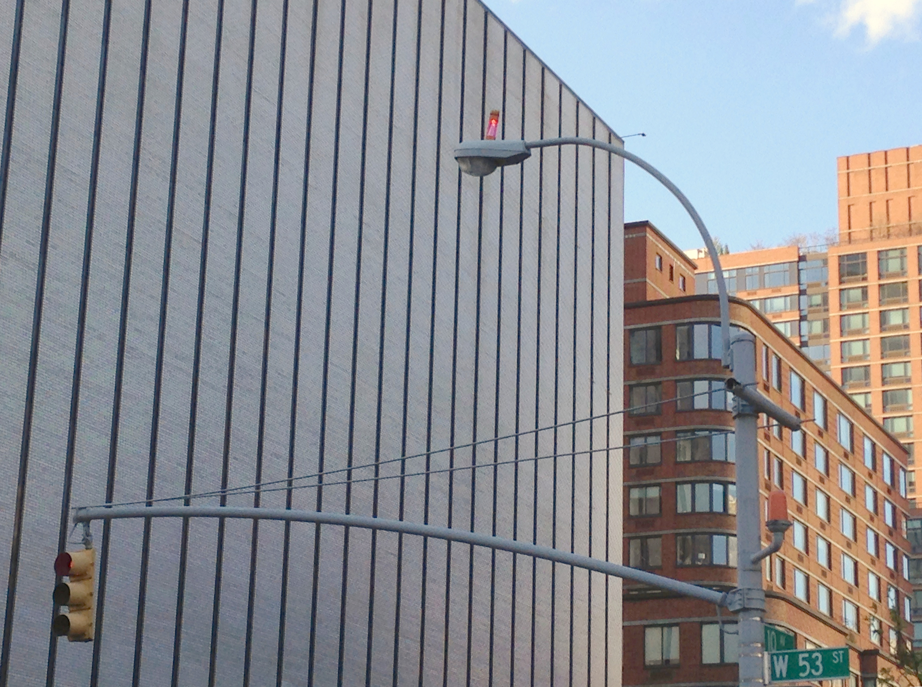 The red indicator on top of this street light in New York City indicates close proximity to a fire alarm pull box. Also seen lower on the pole is the original style of fire alarm pull station locator, most are still on poles that now have the higher indicator light.